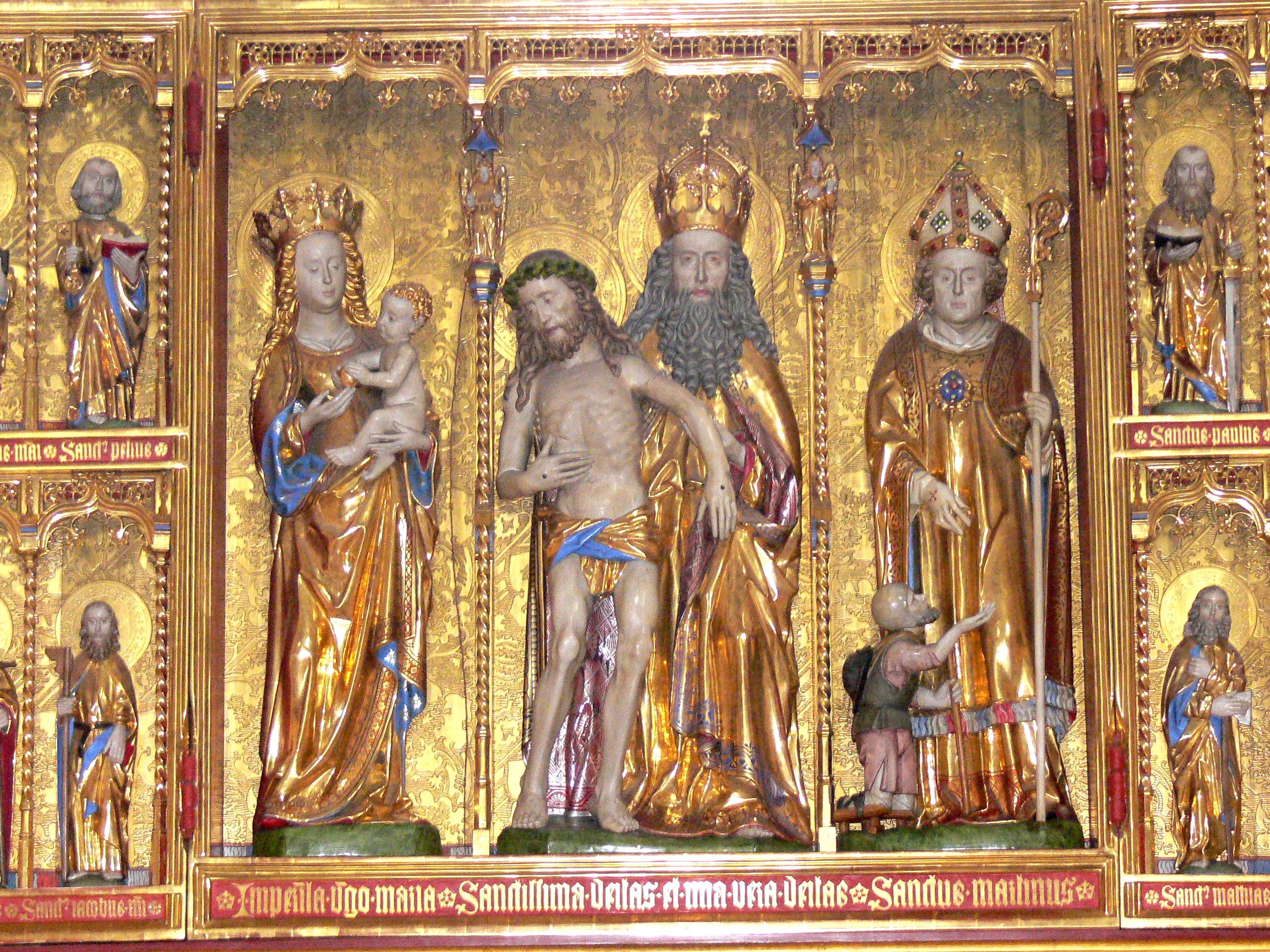 Løgumkloster church. Gothic high altar: Virgin Mary with child, Holy Trinity and Saint Martin with the beggar.